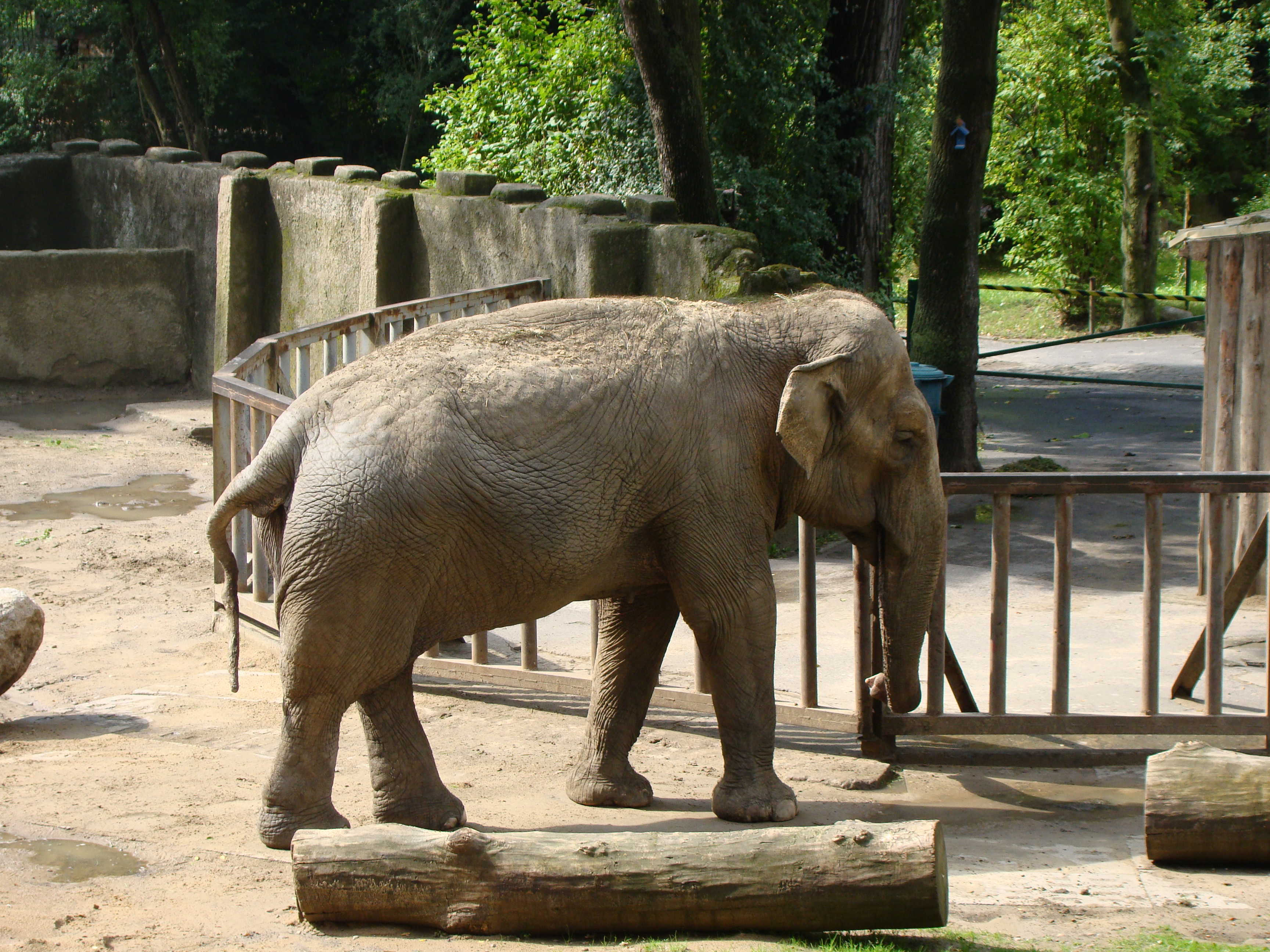 Łódź Zoo. Słonica Magda (1962-2016).